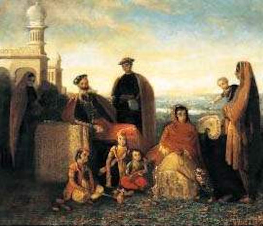 General_Allard_with_familly